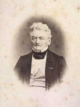 Danish district officer in Copenhagen Hans Helmuth von Lüttichau (1794-1869)